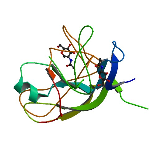 3d structure od choriongonadotropin in complex with NAG after PDB 1hrp.